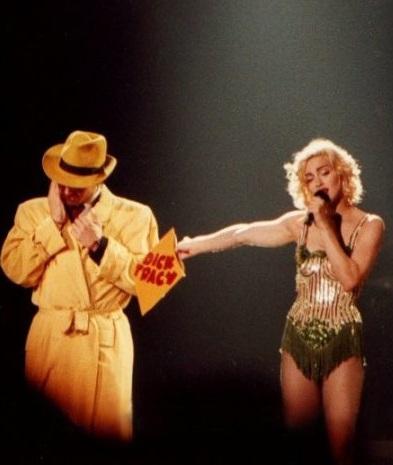 Photo taken during one of the concerts in 1990